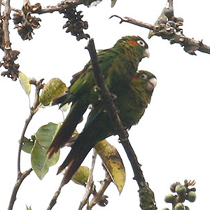 Sulphur-winged Parakeet (Pyrrhura hoffmanni) at Savegre Lodge, near San Gerardo, Costa Rica.